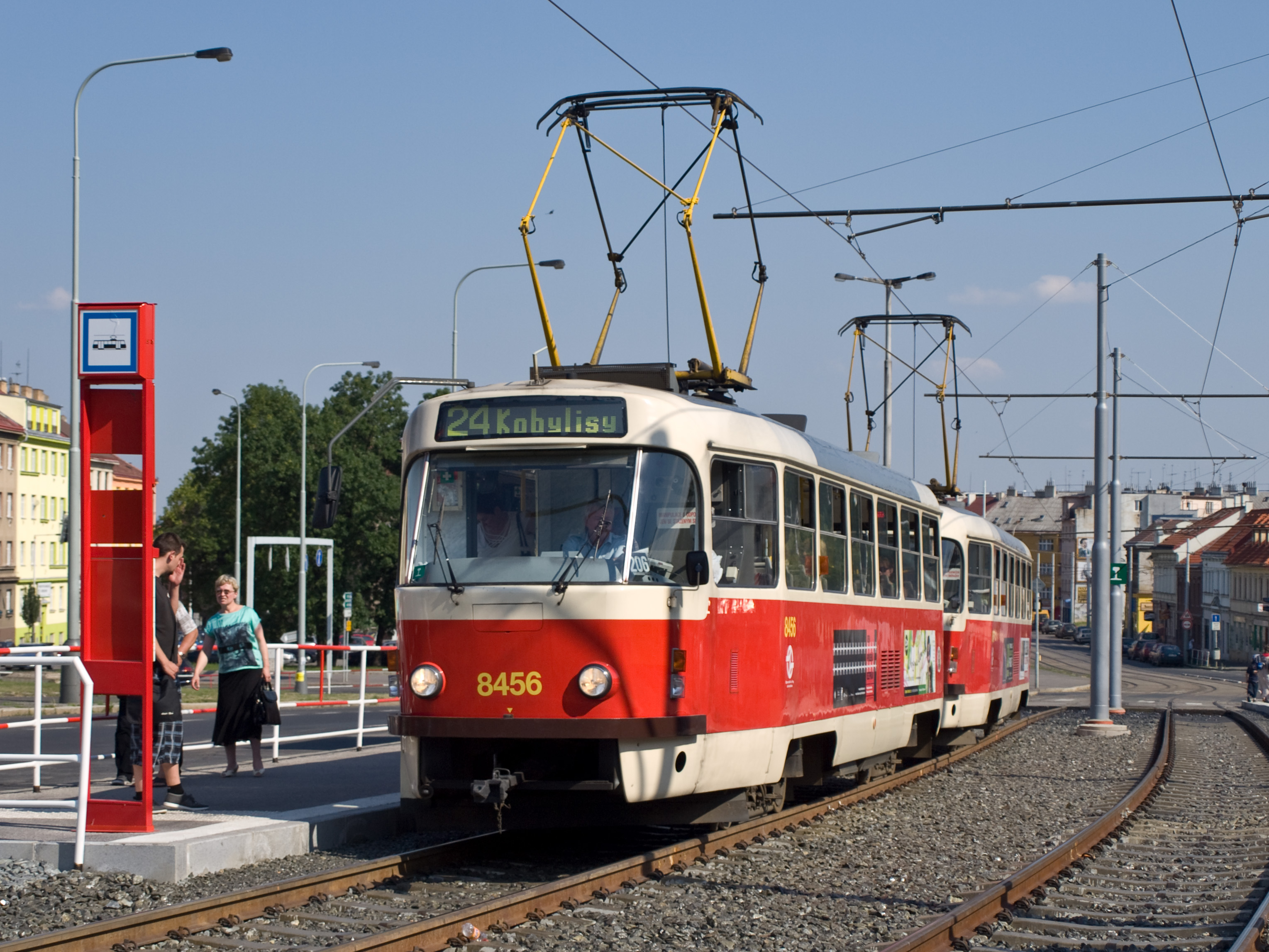 Tatra T3R.P, Bulovka, Prague